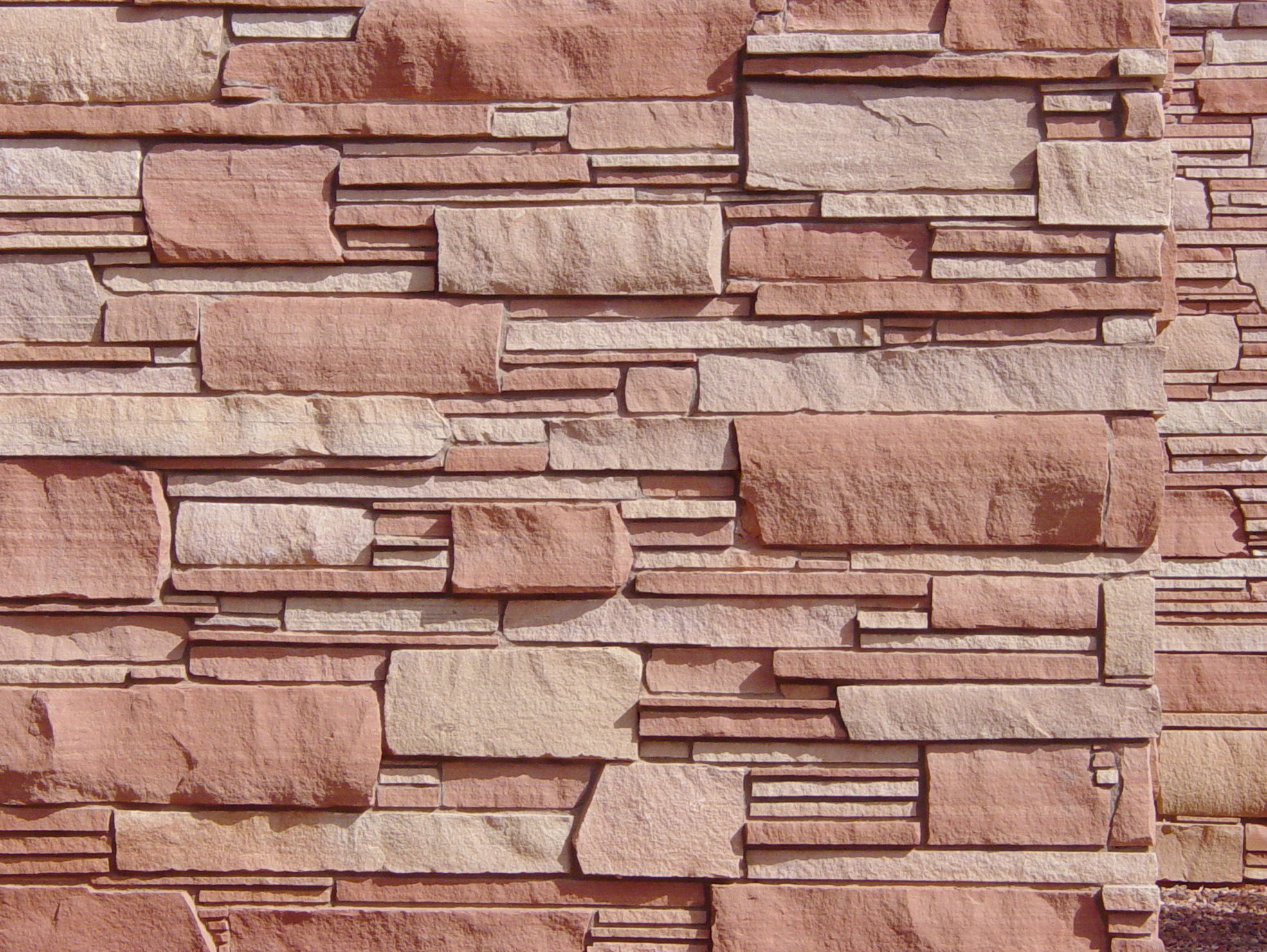 Sandstone block veneer masonry at the Sedona, Arizona Public Library. Selection and placement of stones of appropriate color and size requires a high order of skill. Note also that mortar is hidden to give the appearance of dry-set masonry.. Image by User:Leonard G.